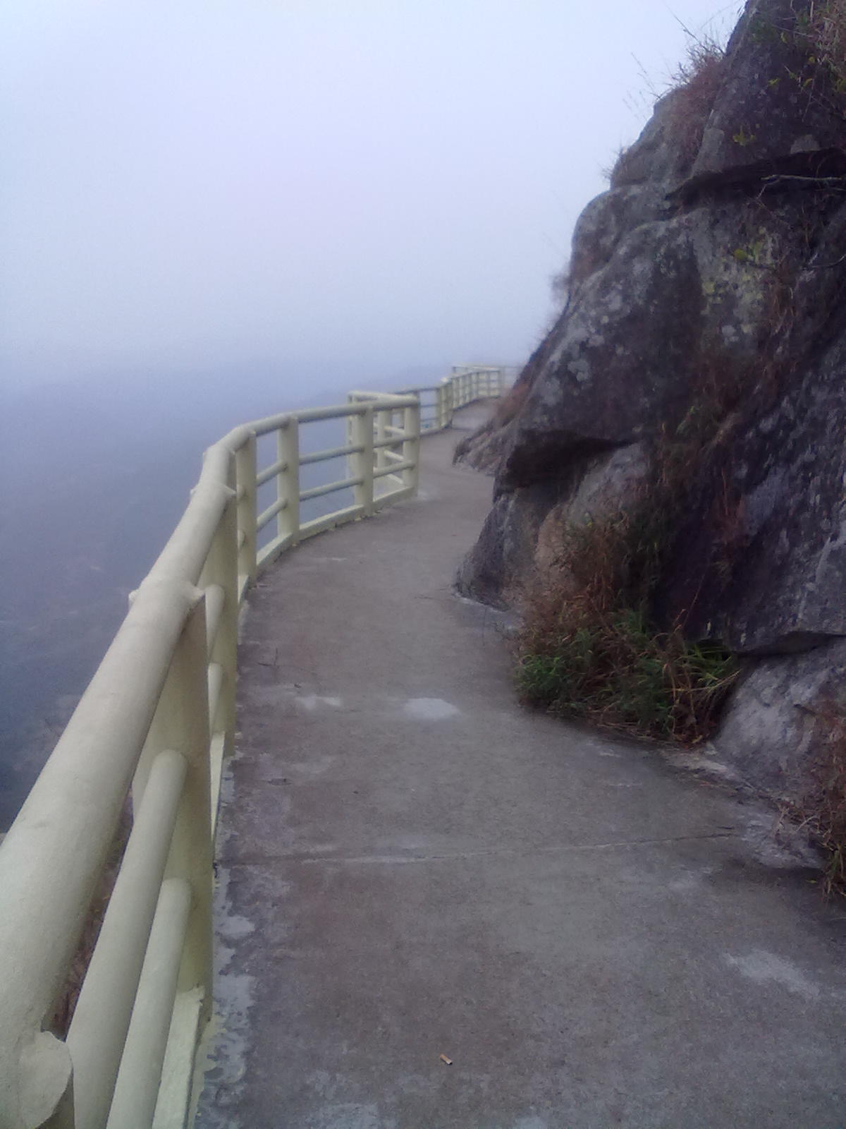 the view of Shigen Mountain